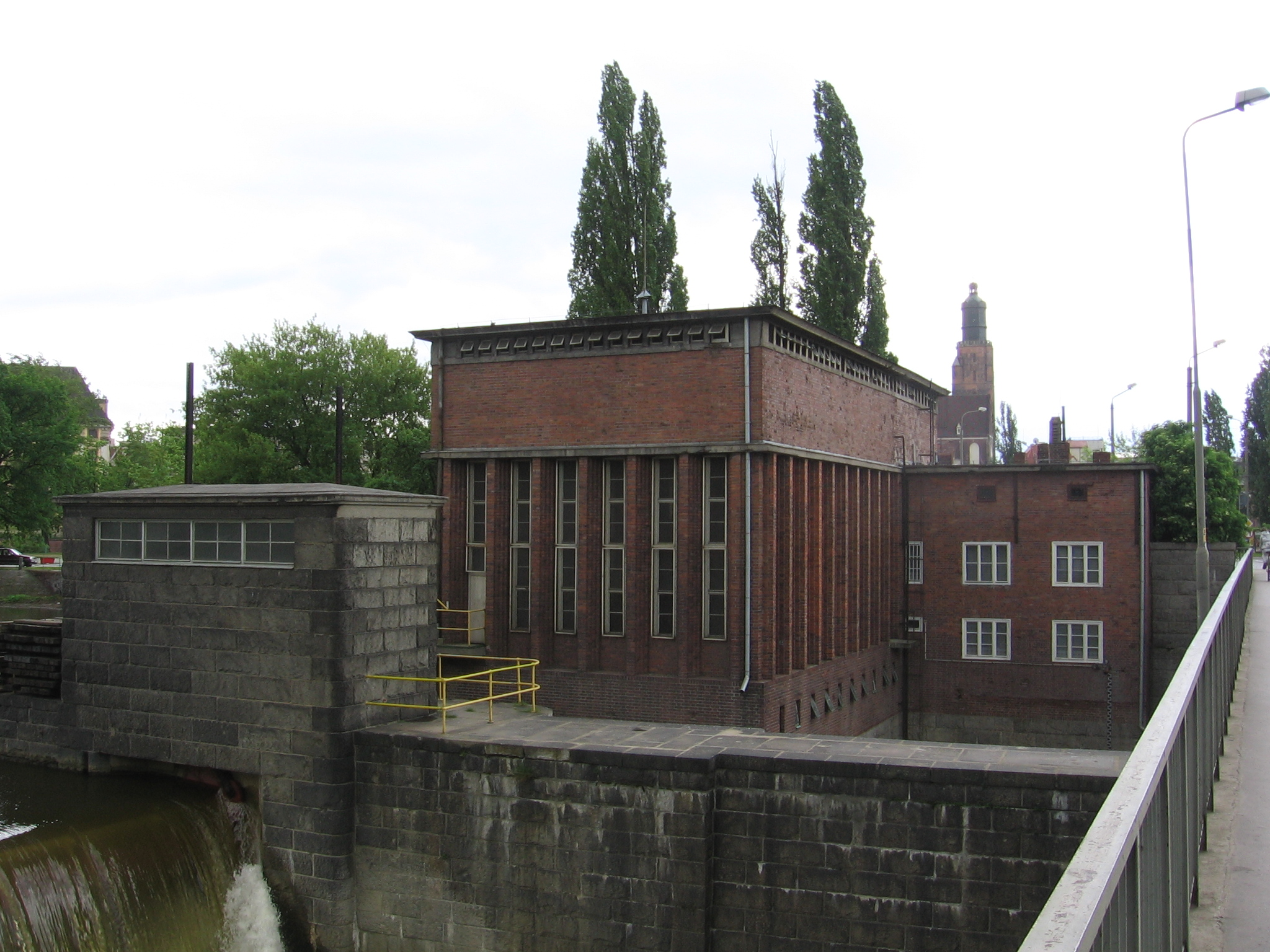 Northern hydroelectric plant on Odra River in Wrocław, Poland